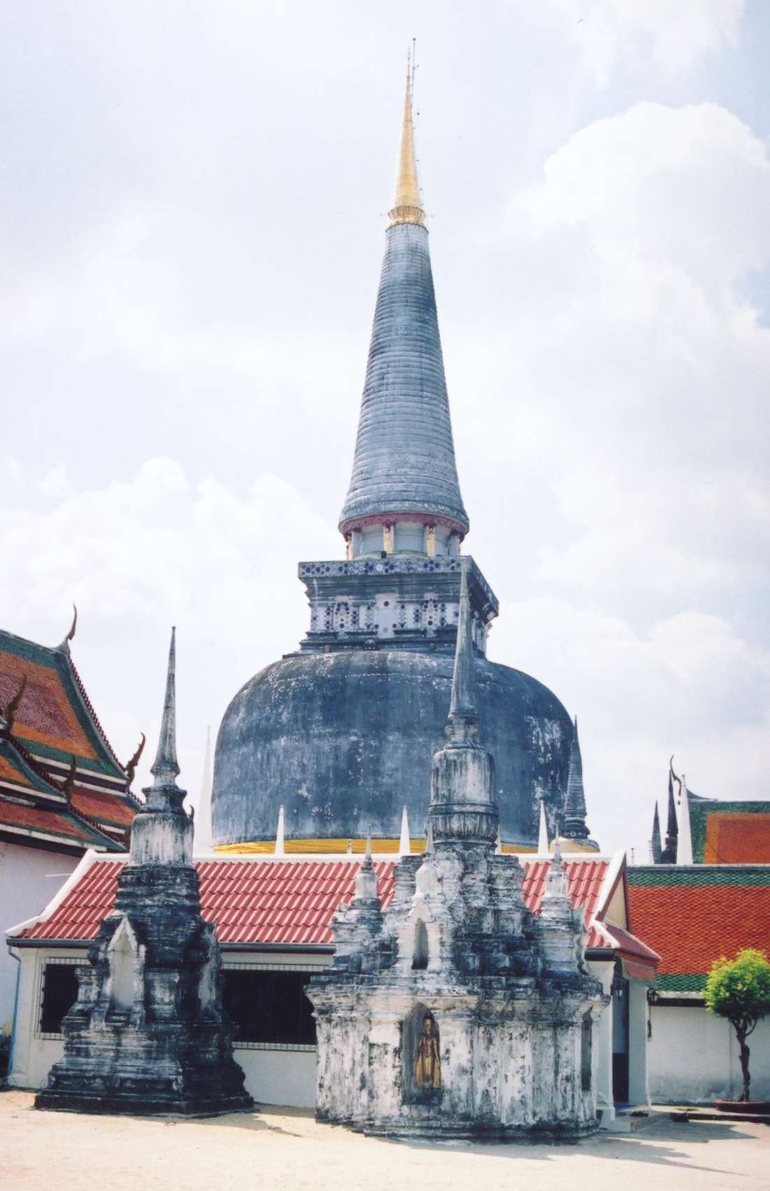 Chedi Phra Baromathat in Wat Mahatat, Nakhon Si Thammarat, Thailand. Photo taken by User:Ahoerstemeier on January 19 2005.